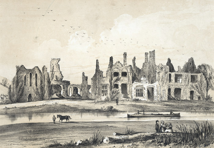 A view of the ruins of Neath Abbey with a horse-drawn barge in the foreground.